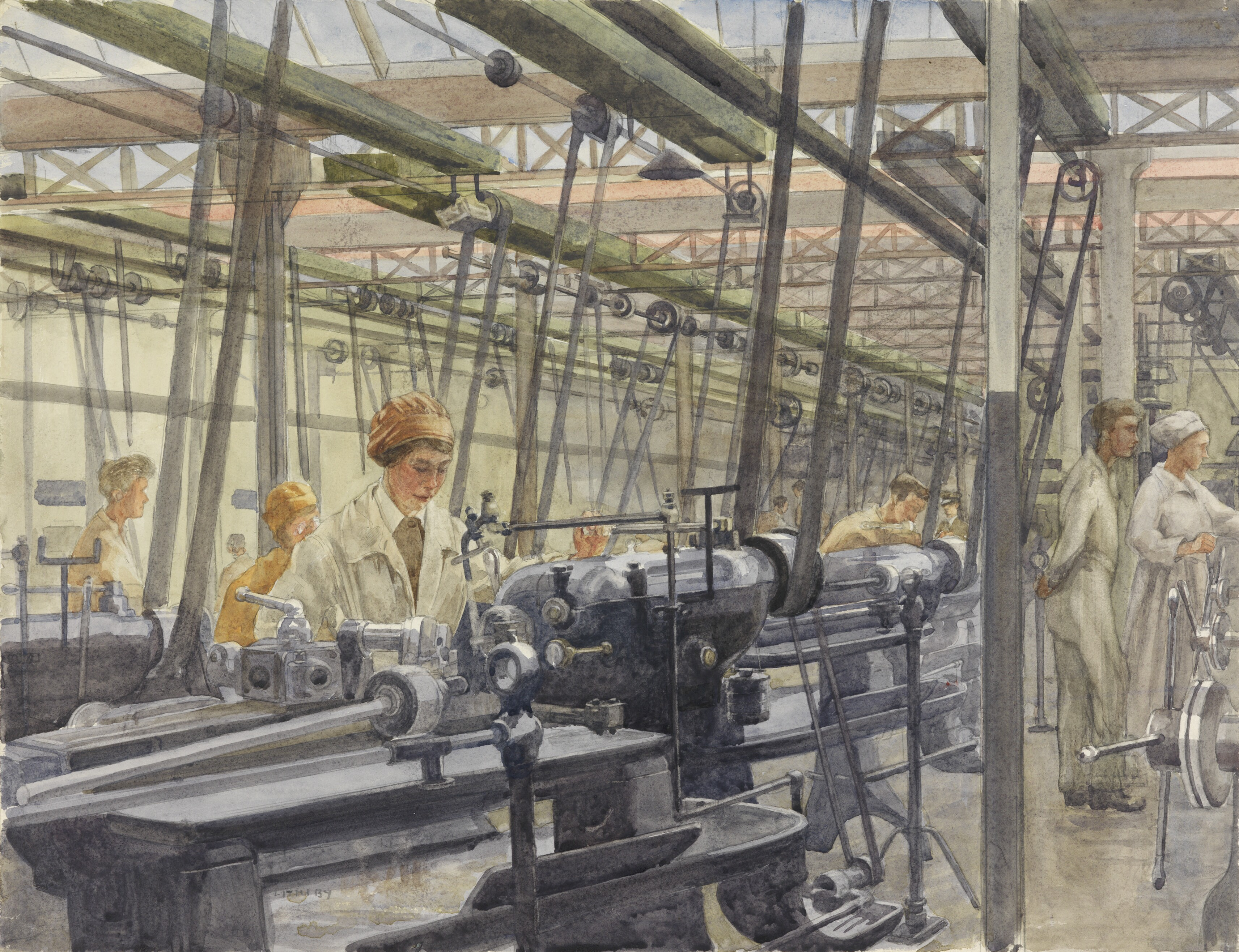 Queen Mary's Army Auxiliary Corps Mechanics in the Engine Repair Shop, Rouen Area - worker Weston in foreground image: interior view of a large workshop with belt-driven machines operated by women; one woman at her machine is prominent in the foreground.